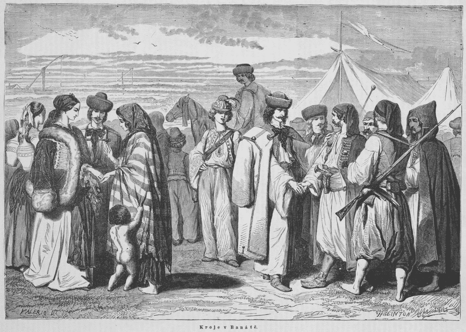 Costumes in Banat